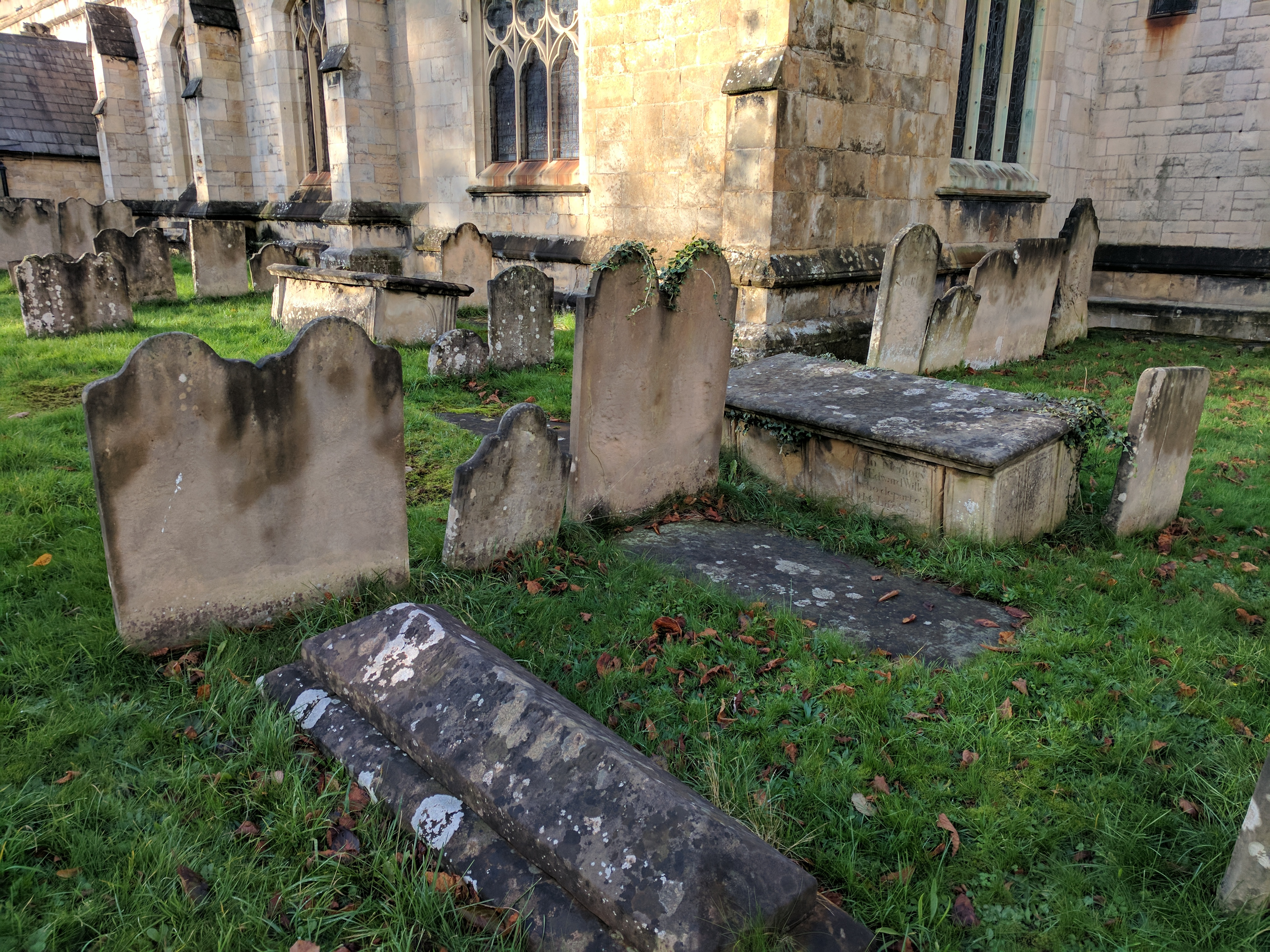 Headstone 3 Metres South Of Lady Chapel At Church Of St Edmund Wikidata has entry Q26543757 with data related to this item.